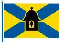 Flag of the former Kõo Parish, Estonia.